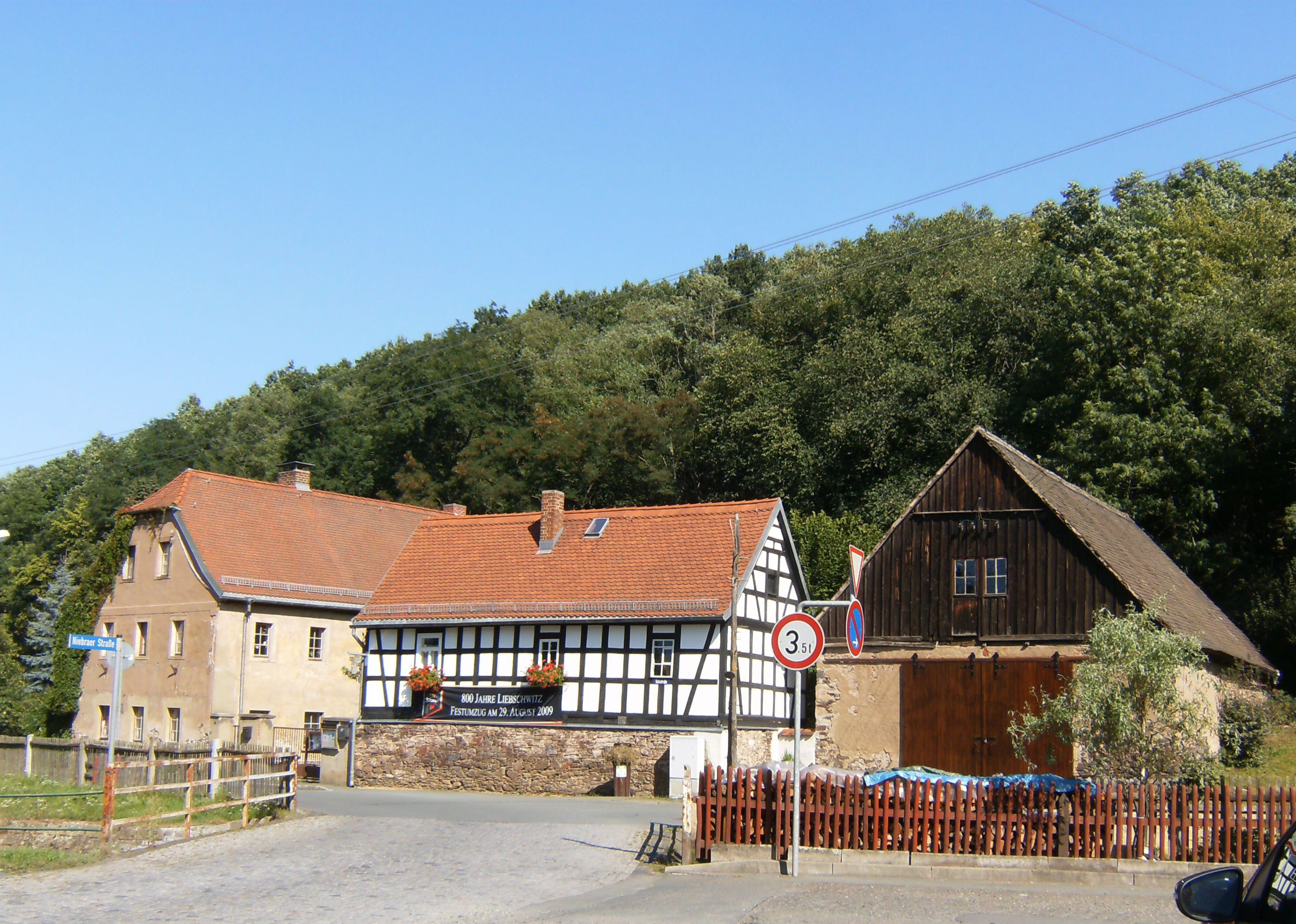 Liebschwitz, part of old Liebschwitz. The photograph shows the former rectory with the local museum.